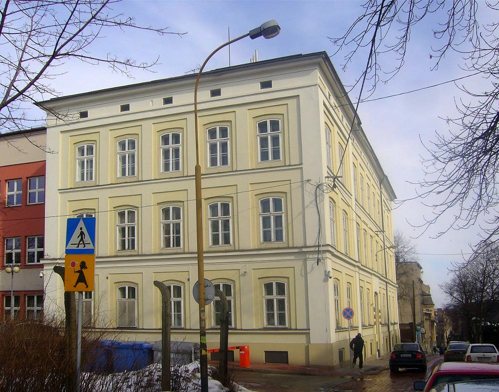 Middle and high school of Mikołaj Rej's School Society in Bielsko-Biała, former P. Lauerbach Alumneum.